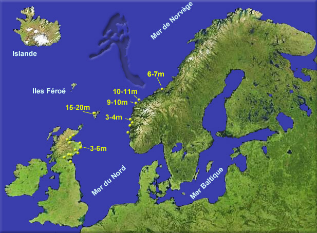 Position of the Storegga Slide (west of Norway). the yellow numbers give the height of the tsunami wave as tsunamite s recently studied by researchers. This is a mégatsunami wich- around 8150 years ago - has spread to hundreds of kilometers following the collapse of a piece of shelf. Source of yellow data. see also (in French): museum presentation by the Belgian "A tsunami in Belgium?"